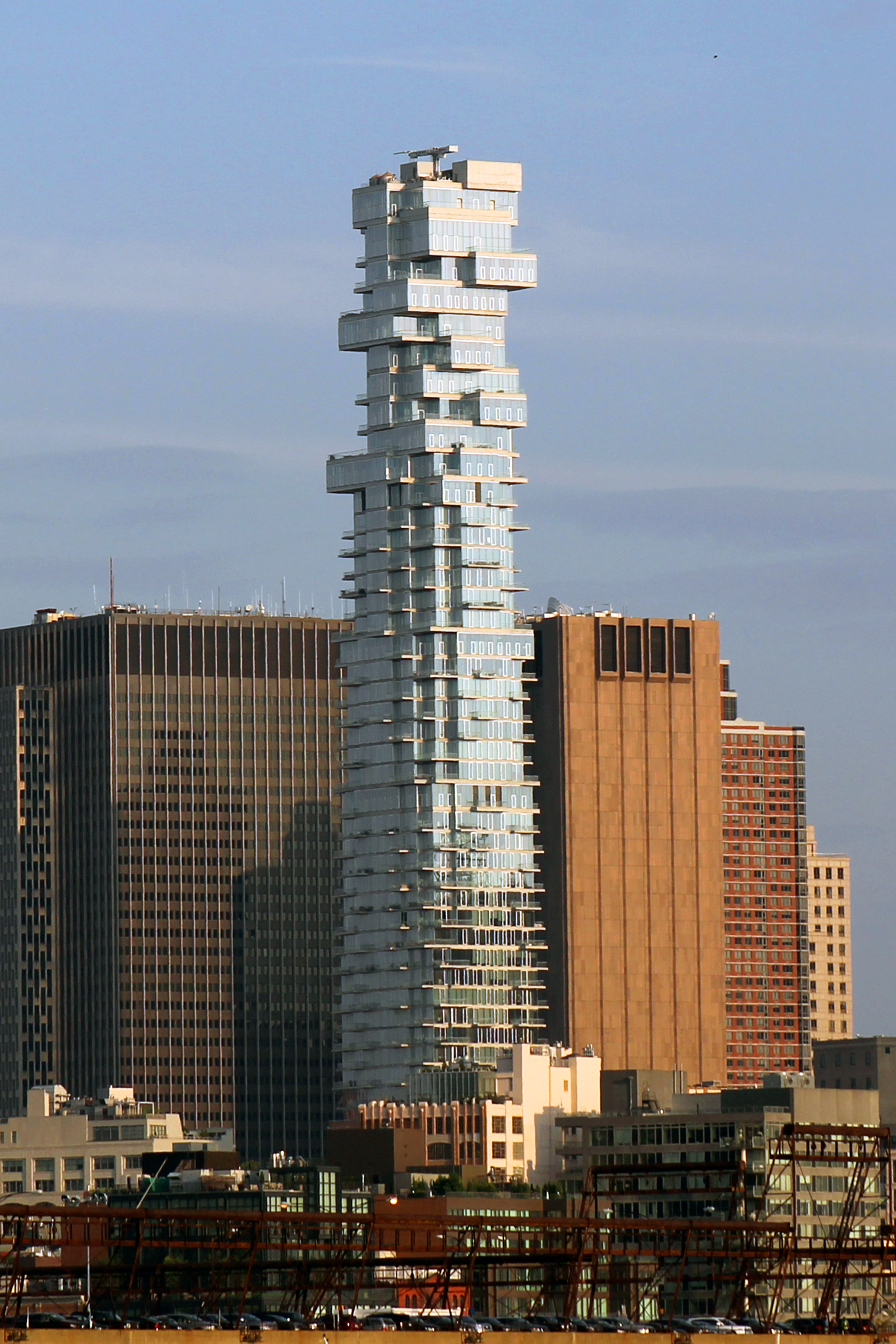 New York - 56 Leonard Street (Jenga Tower) photographed from Hudson River on 16 July 2019